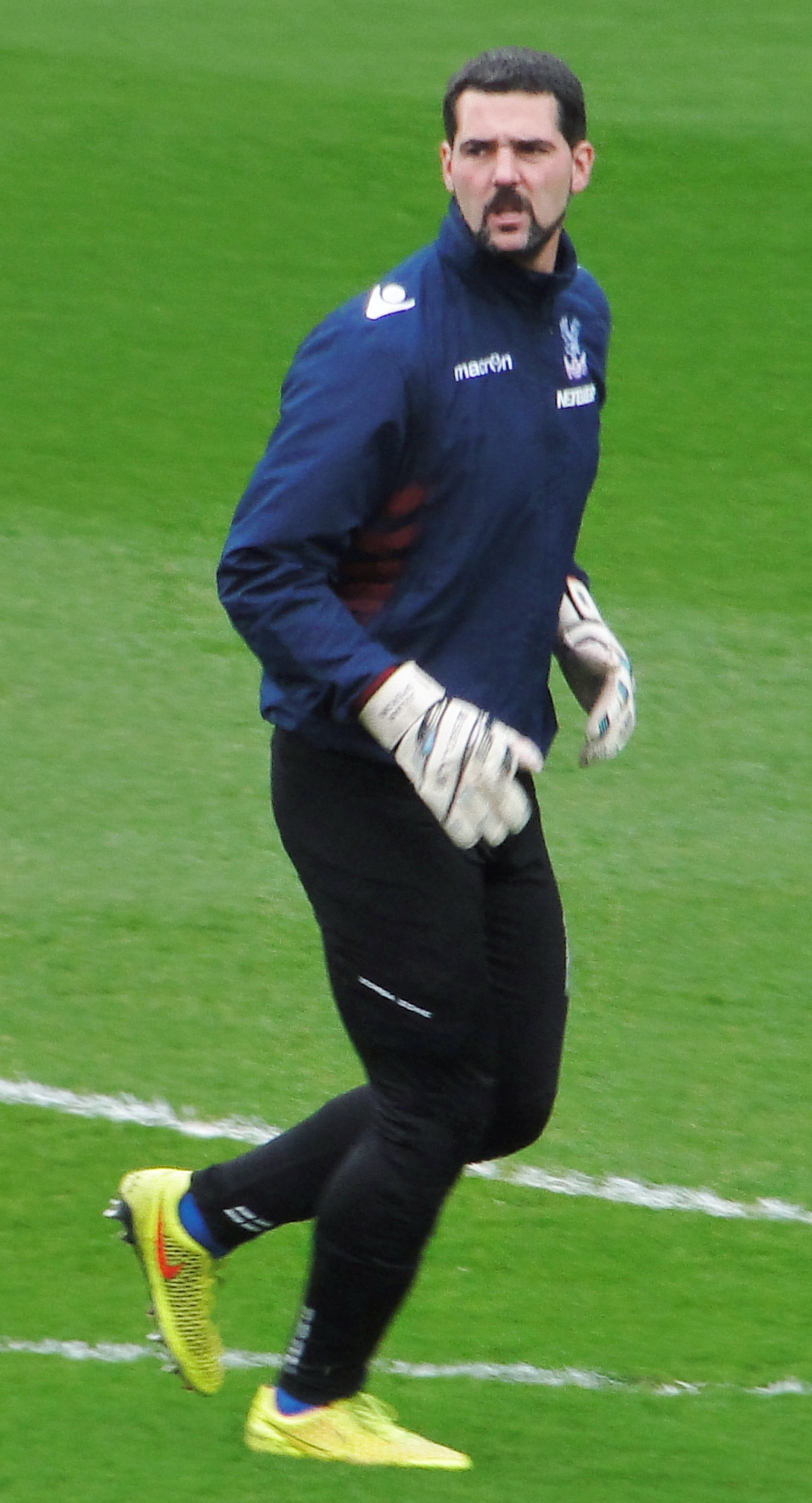 Crystal Palace goalkeeper, Julian Speroni warming-up before their Premier League game against West Ham United at the Boleyn ground.